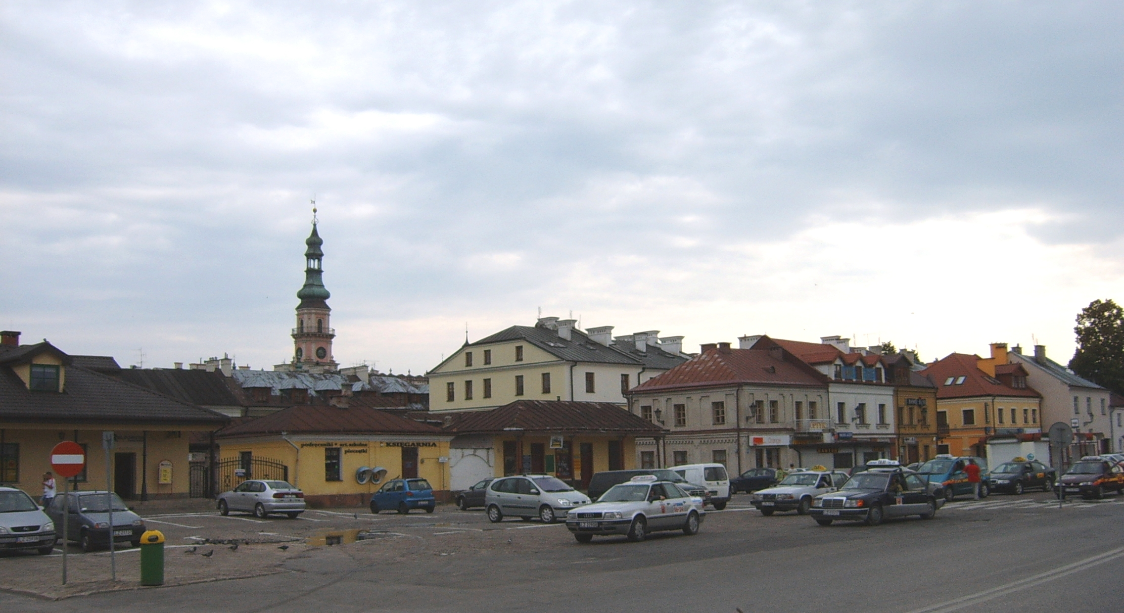 M. Stefanides Square in Zamość, Poland